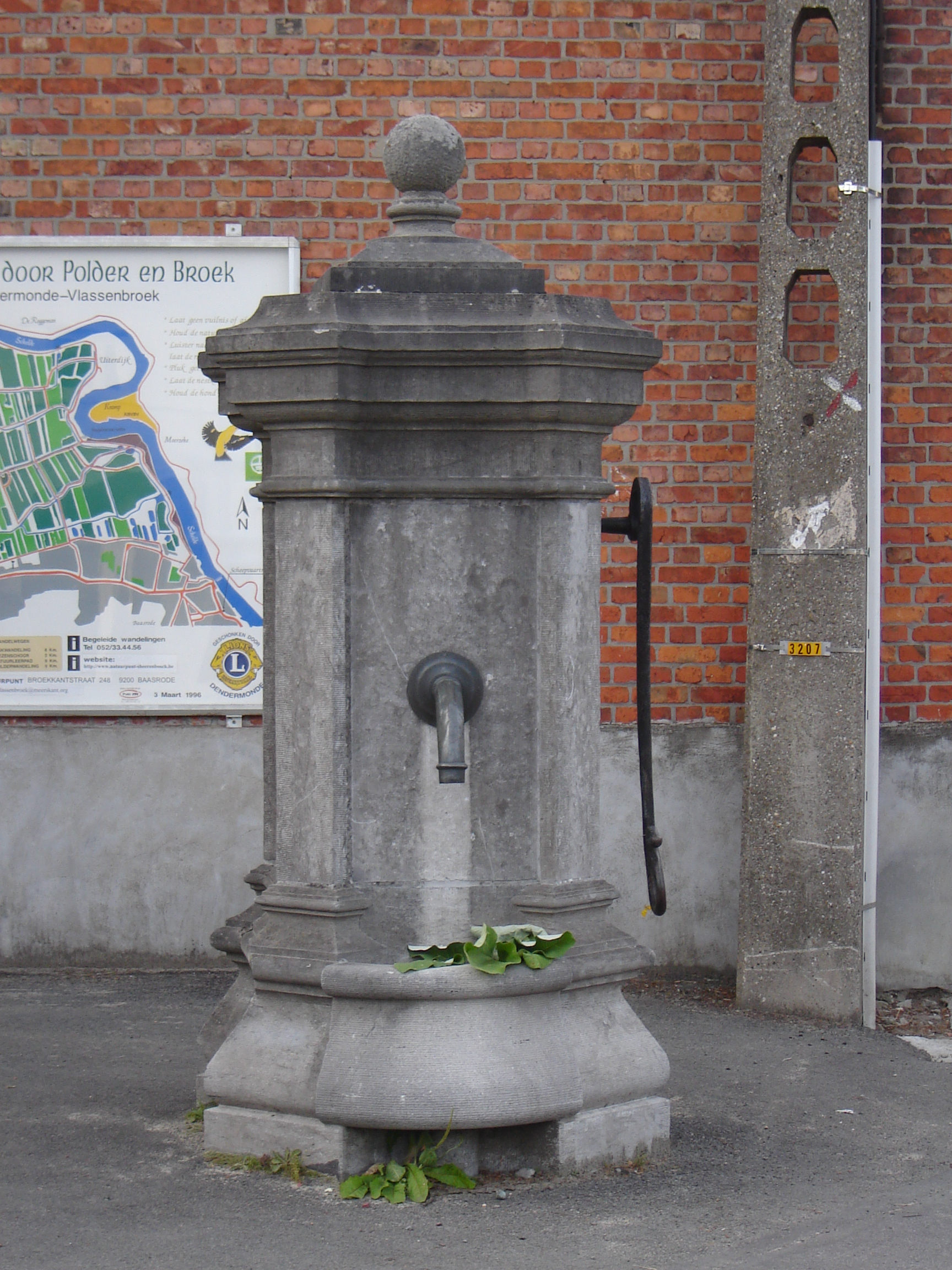 Village pump on the village square in Vlassenbroek. Vlassenbroek, Baasrode, Dendermonde, East Flanders, Belgium